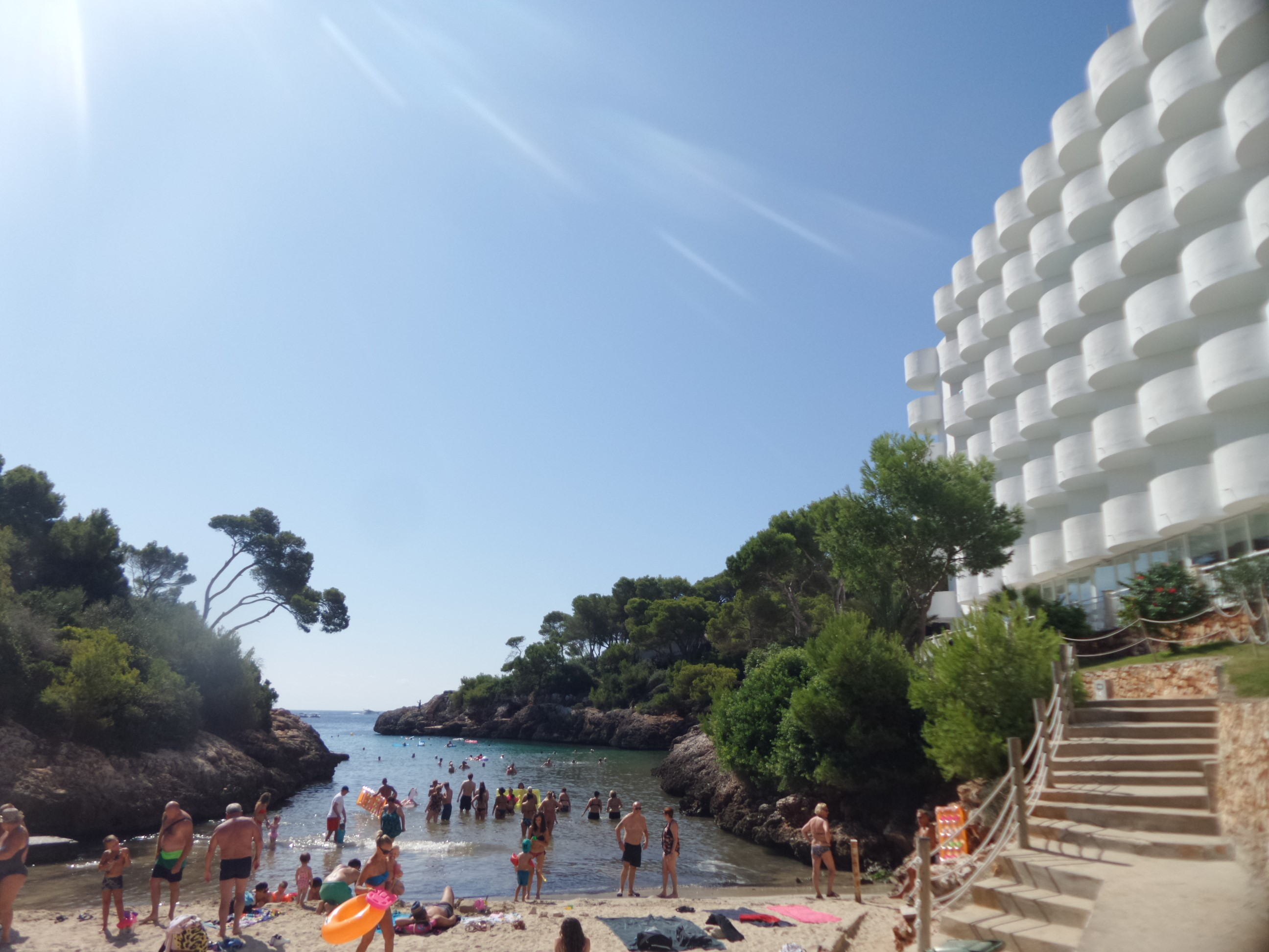 Cala Egos (Bay) in Cala Egos (Residential Area) von Cala d'Or (Township)